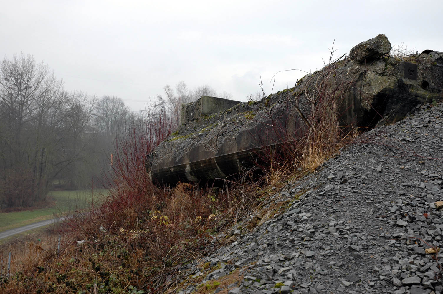 remainings of bunker 238 near Talheim (bei Heilbronn).